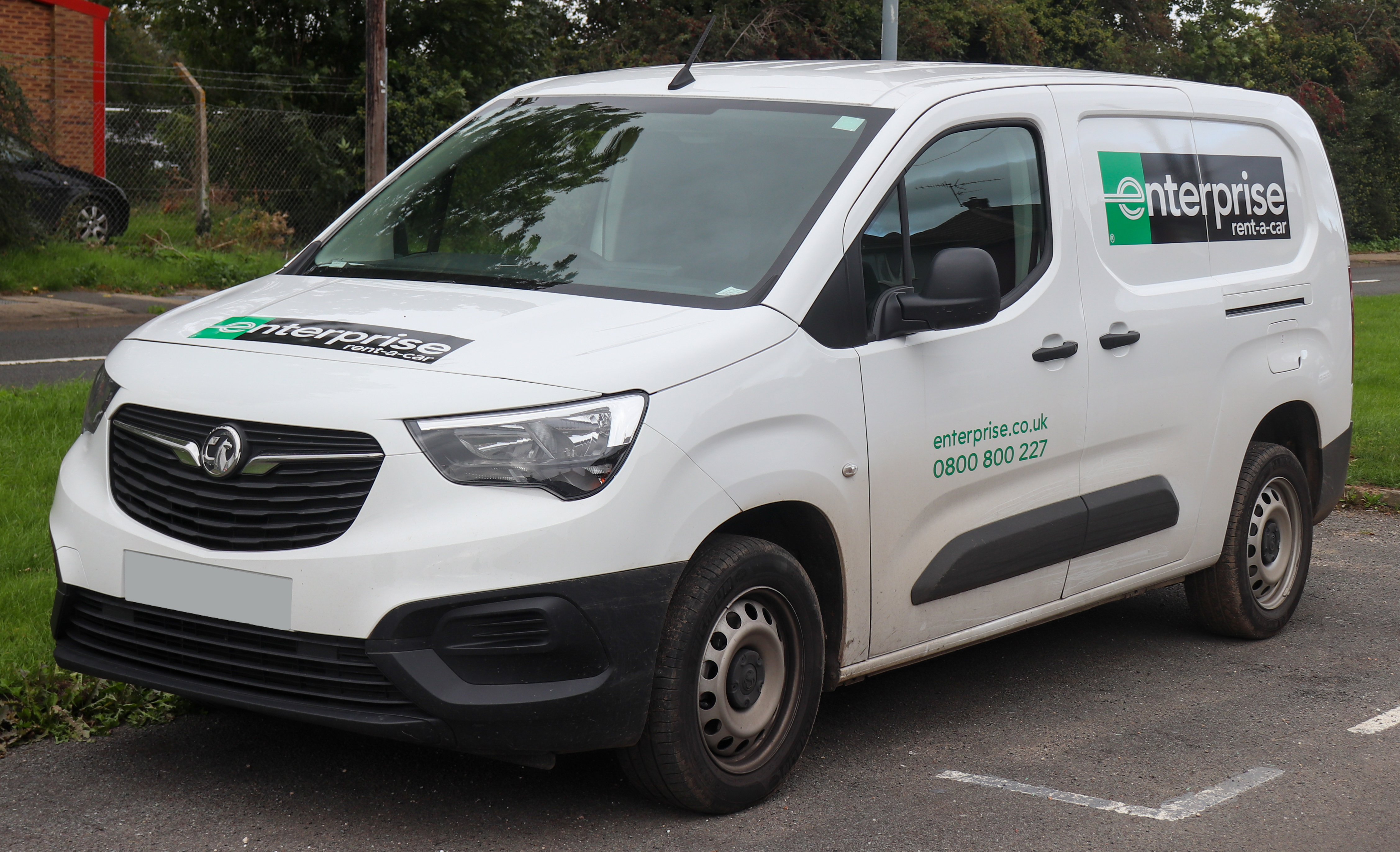 2019 Vauxhall Combo 2300 Edition 1.6 Front Taken in Warwick